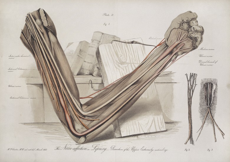 Plate IX from Carter's On leprosy and elephantiasis George Edward Eyre & William Spottiswoode, London 1874